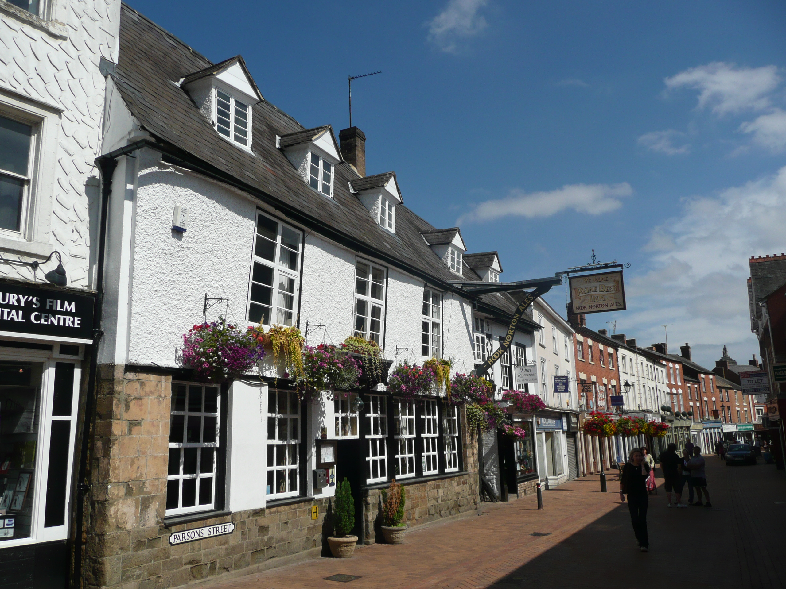 Parsons Street, Banbury, Oxfordshire, with the Reindeer Inn on the left